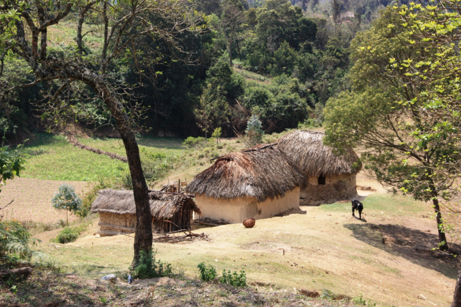 Iraqw homestead near Kondoa 2012